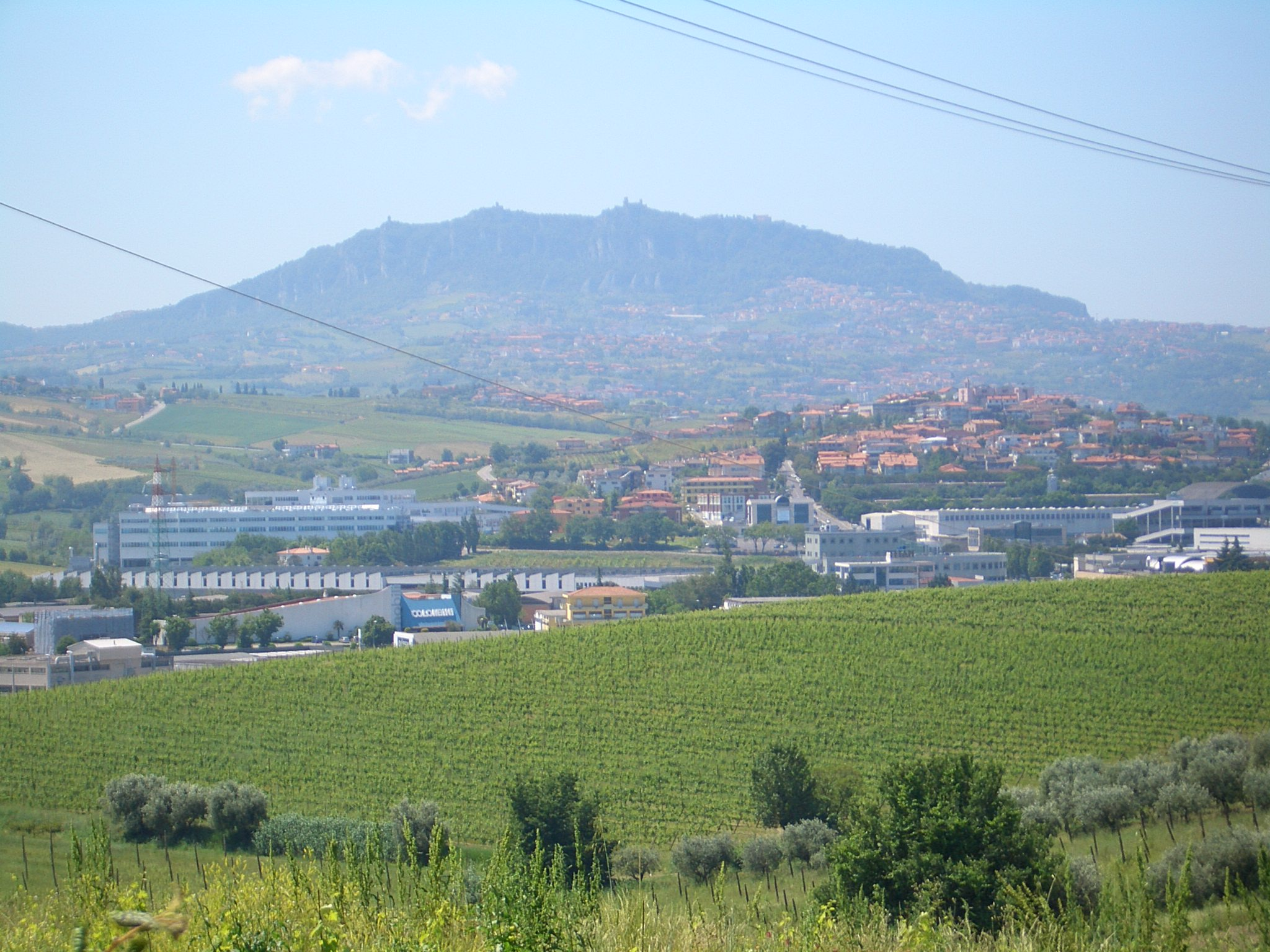 Monte Titano seen from the north-east